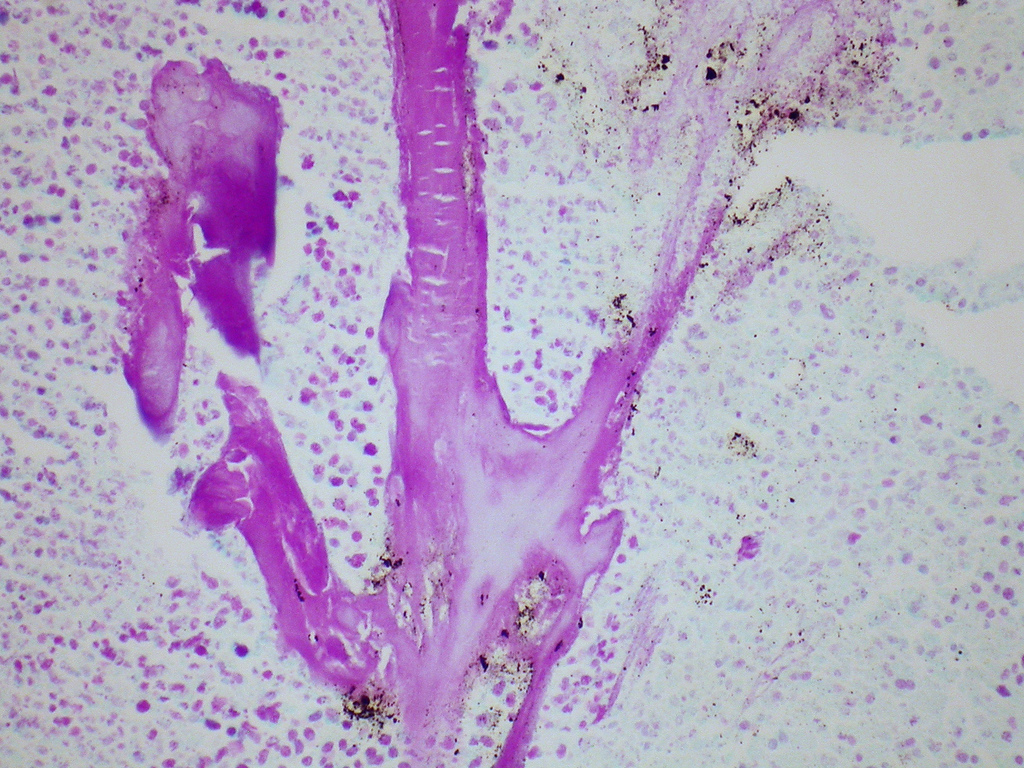 Small cell lung carcinoma -Azzopardi effect- Feulgen stain. The Feulgen stain stains the DNA-impregnated blood vessels in this area of necrotic small cell carcinoma. The DNA originates from the nuclei of necrotic tumor cells.